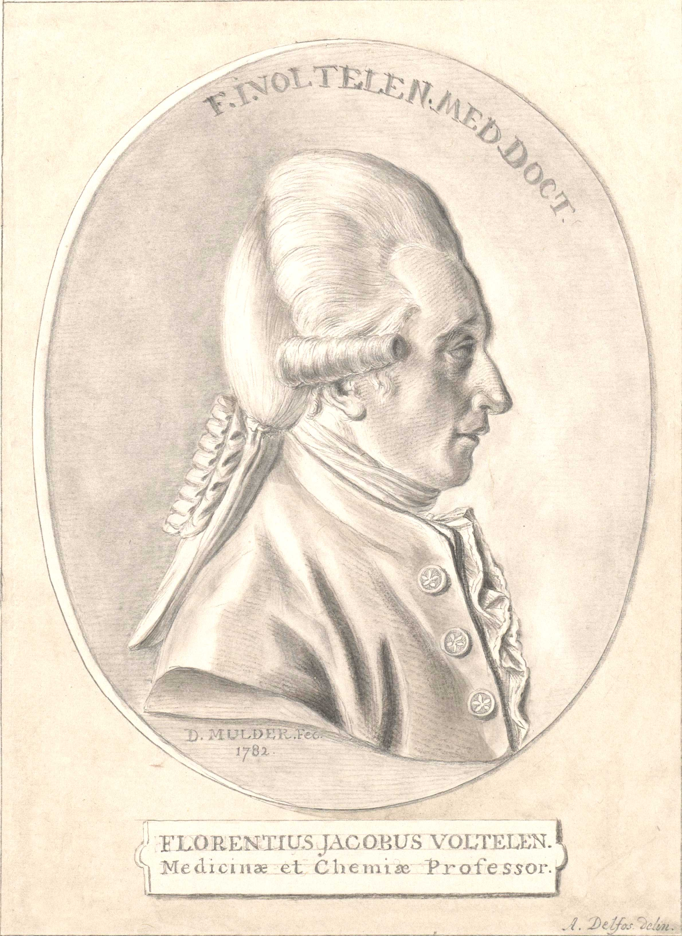 Floris Jacobus Voltelen also: Florentius Voltelen Jacobus (1753-1795) Dutch physician and chemist